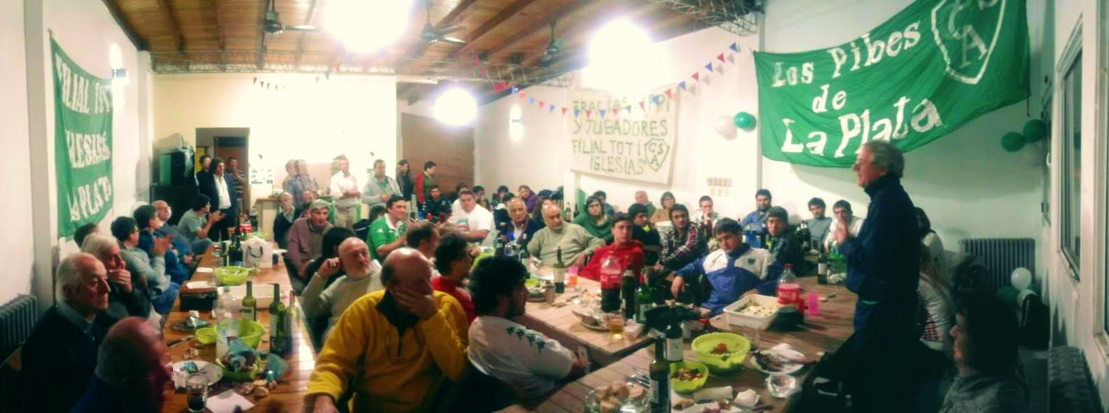 Dinner of the "Toti Iglesias" Branch of the Club Atlético Sarmiento of Junín, in La Plata, June 2013.